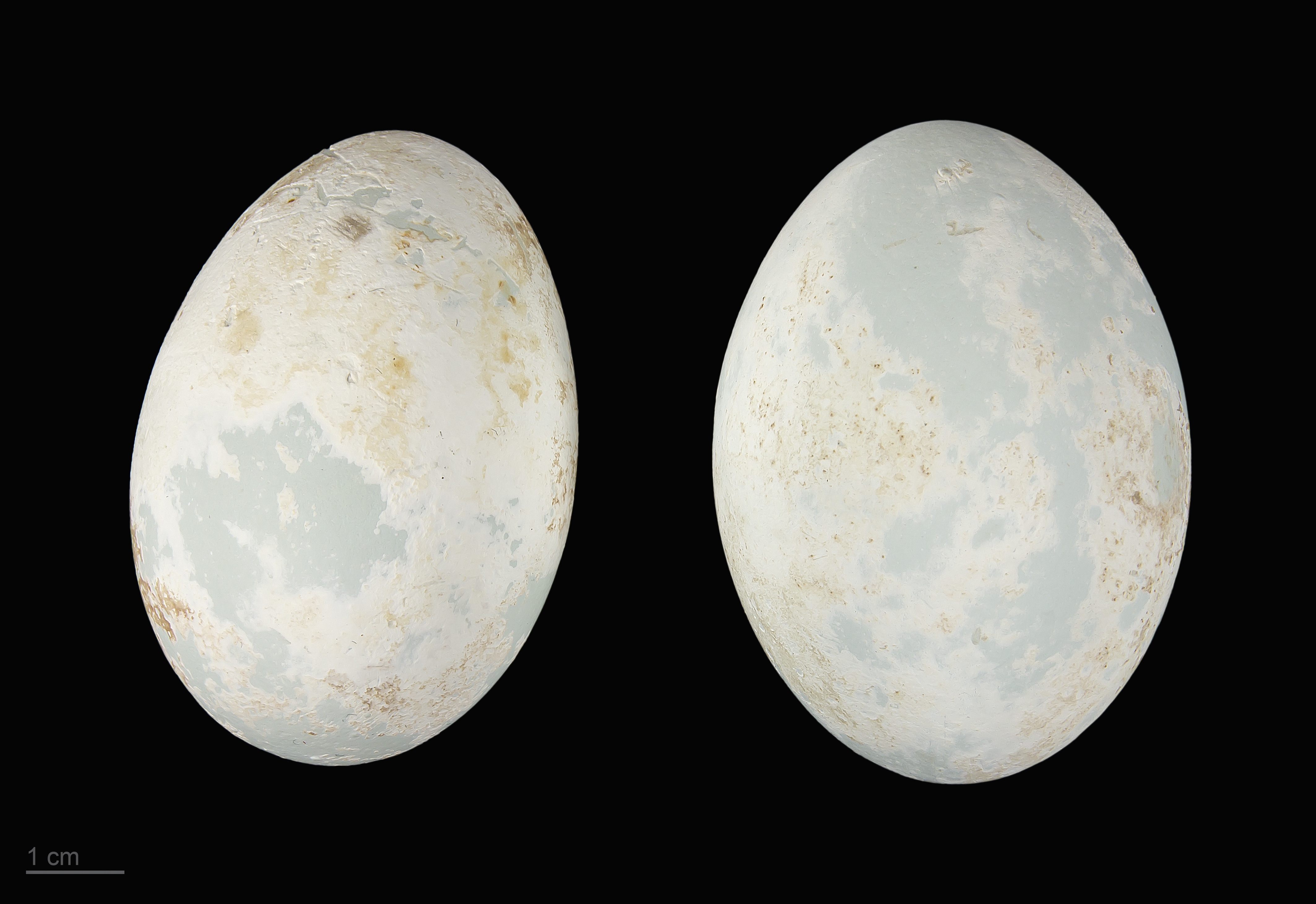 Eggs of brown booby Two specimens of the same spawn ; collection of Jacques Perrin de Brichambaut.